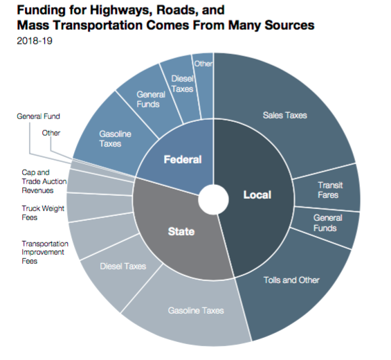 Funding for California transportation services comes from a variety of sources